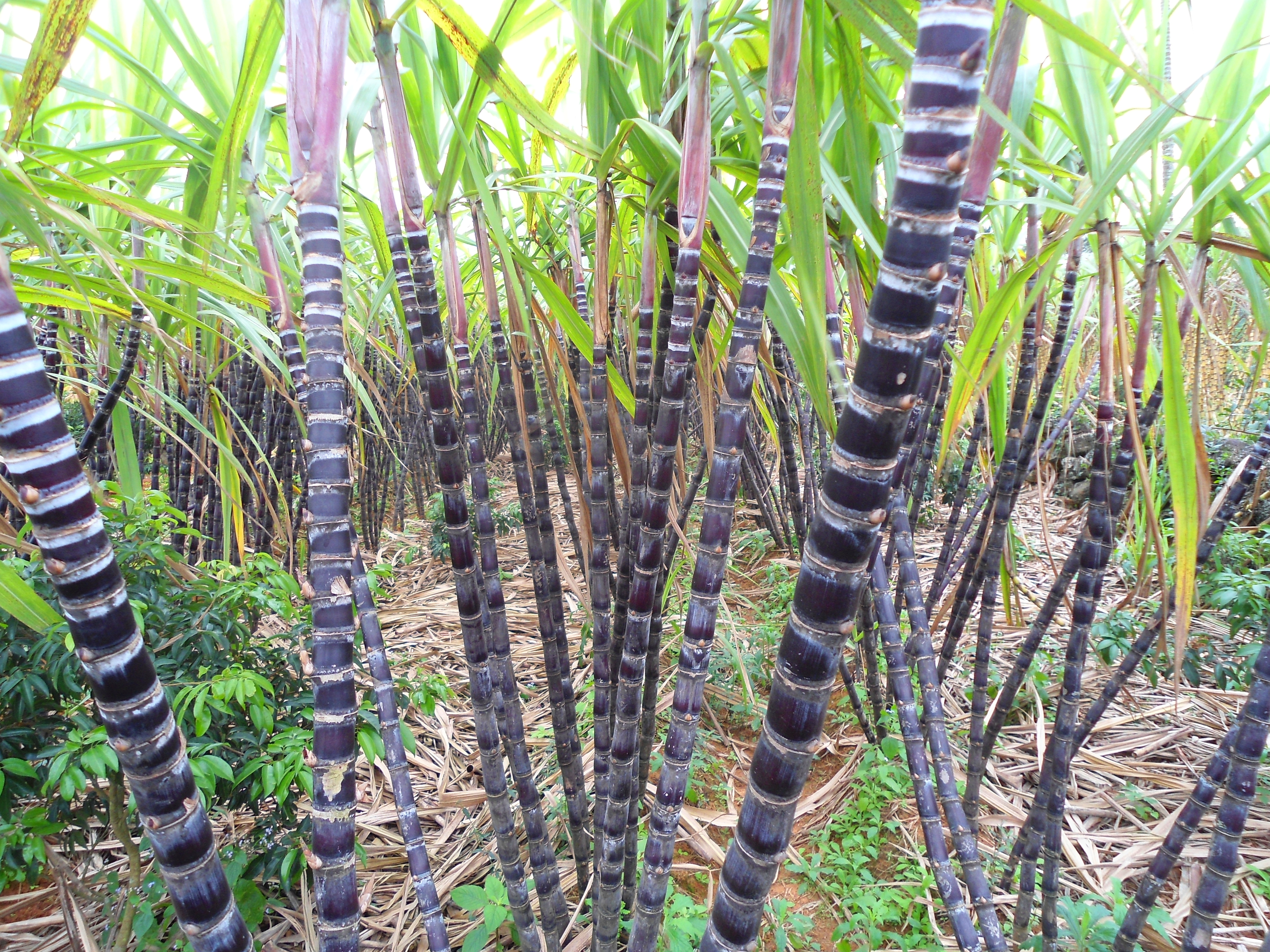 Sugar cane in Hainan, China.